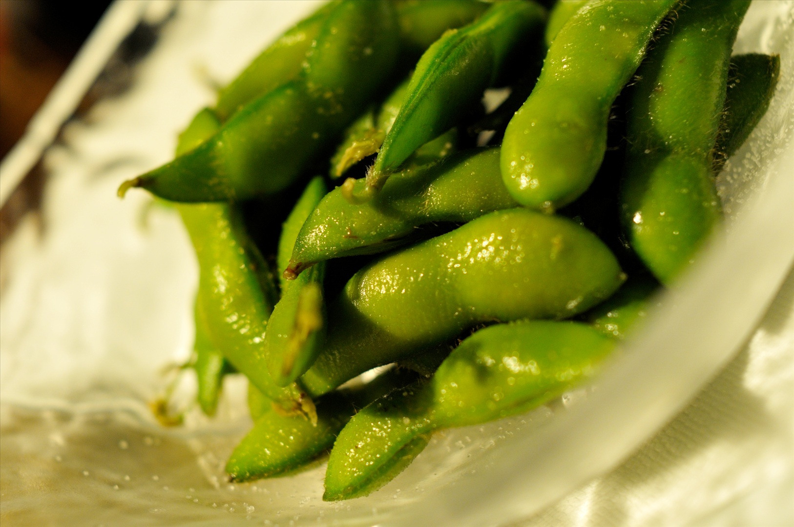 Boiled soybean